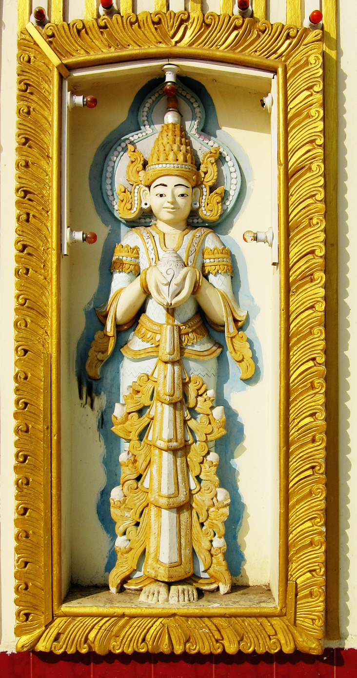 Concrete statue of Devata. This is located at the gate of a Monastery of Mandalay, Myanmar.